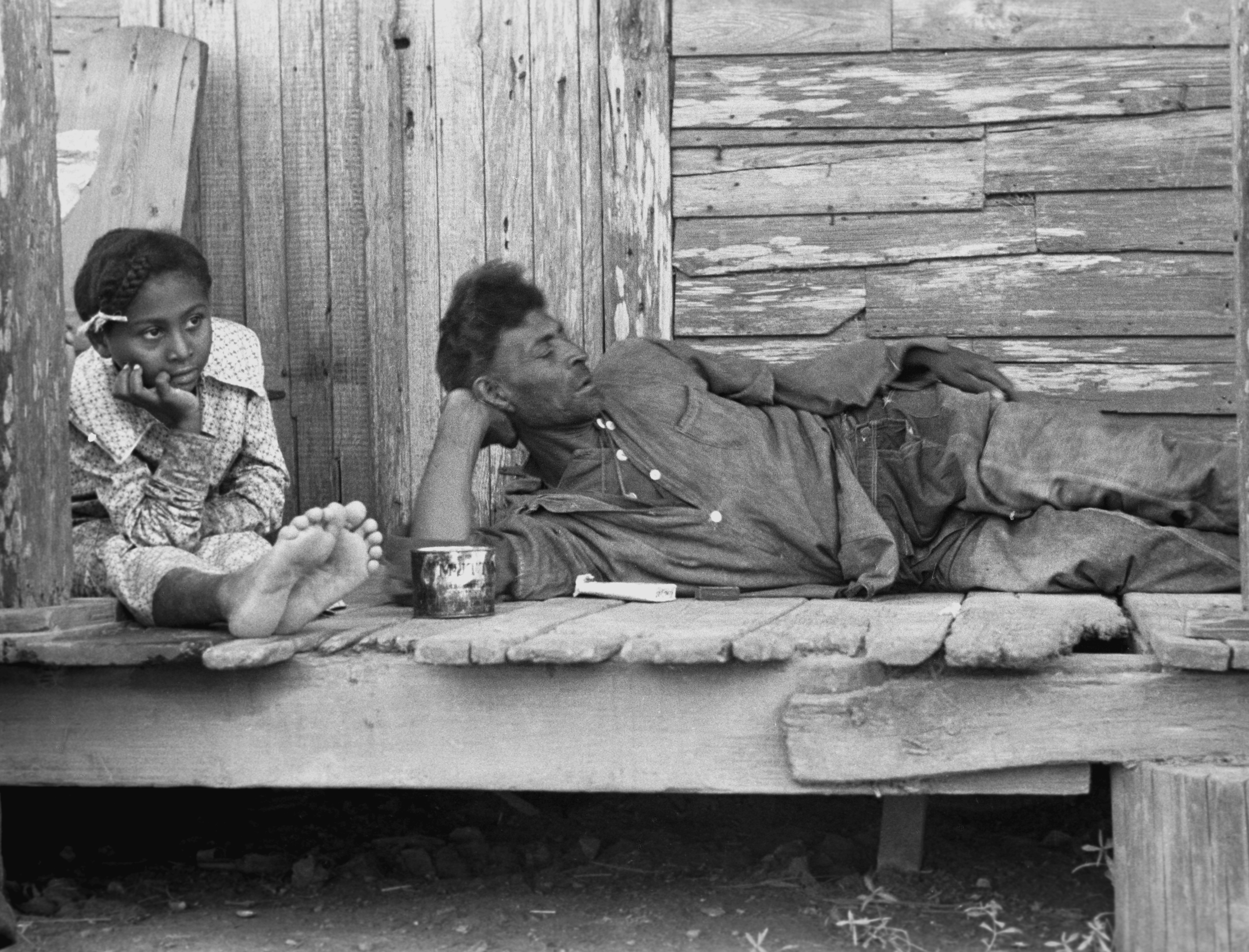 Florestine Carson, unemployed Creole Negro trapper, and daughter, Plaquemines Parish, Louisiana.